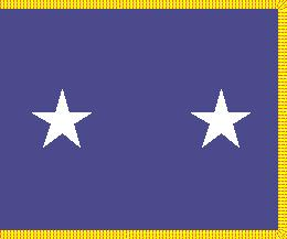 Individual (rank) flag for USAF two star generals